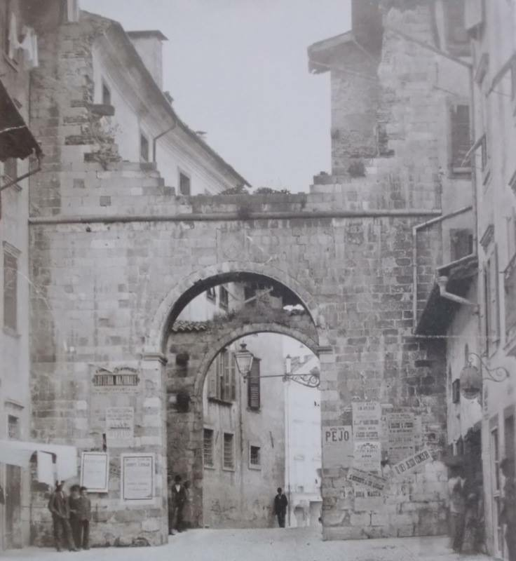 Porta Grazzano interna